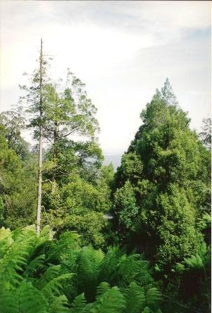 Atherosperma-GreensRoad-near_Orbost, Vic